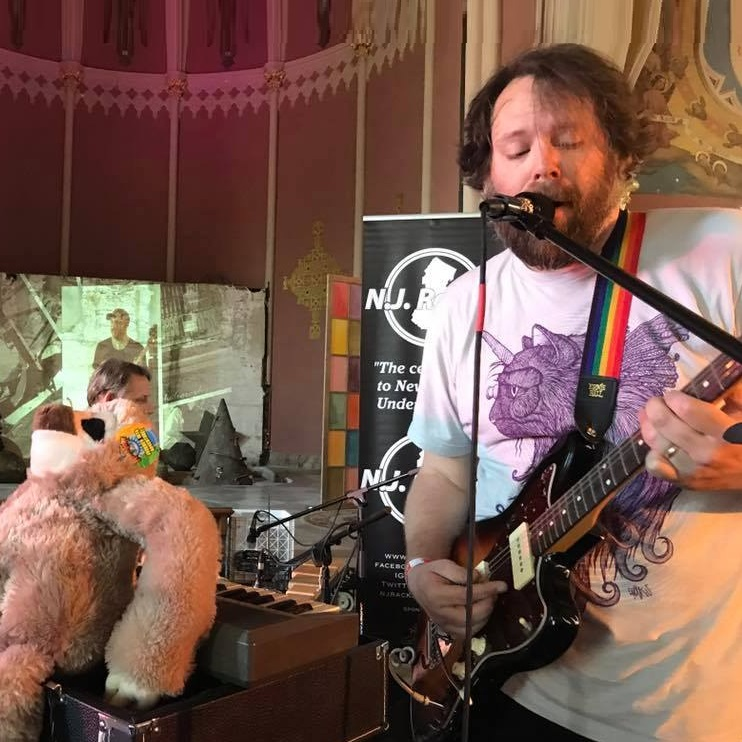 Tom Barrett of Overlake at the 2017 North Jersey Indie Rock Festival.